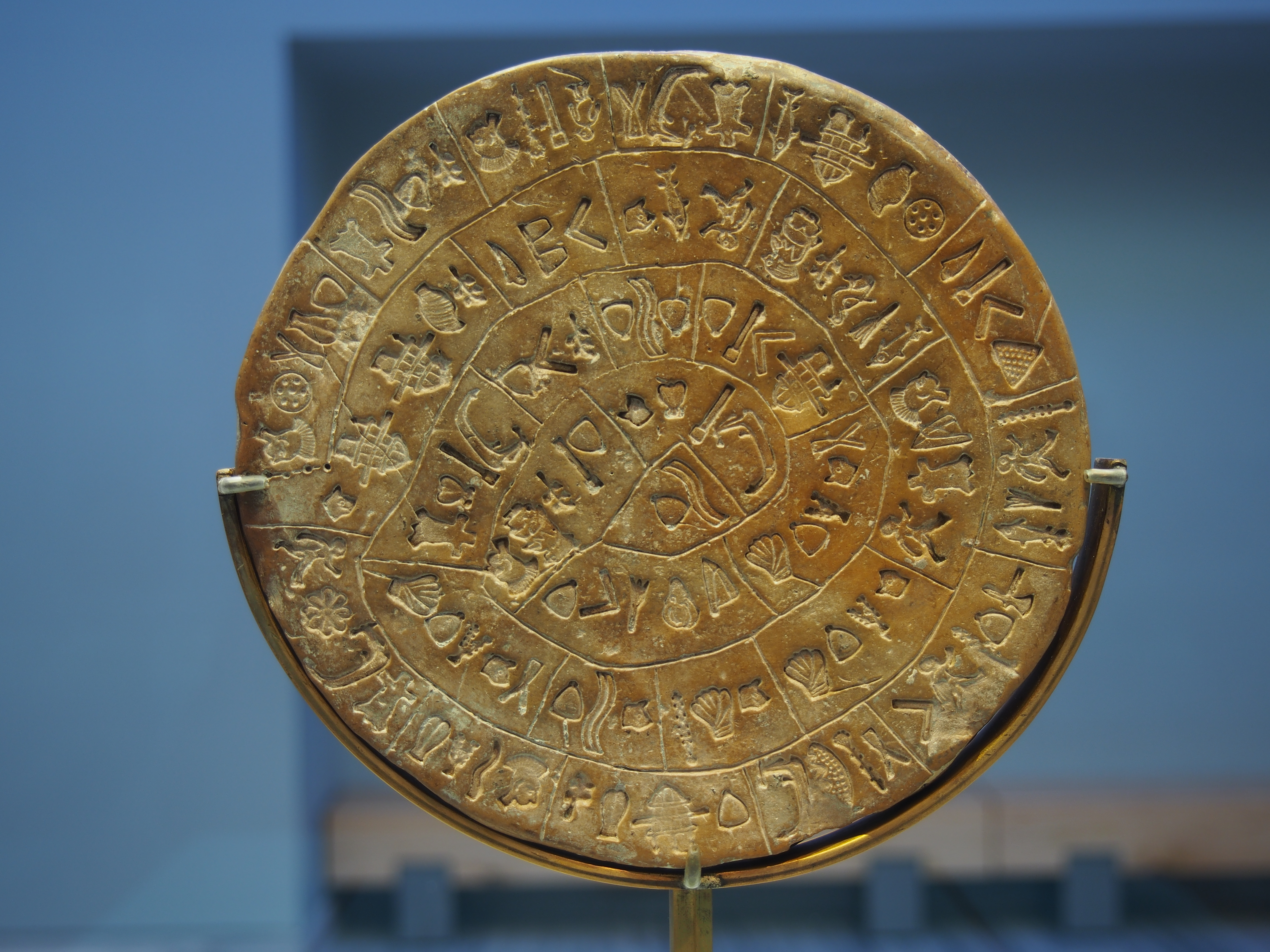 The side B of the disc of Phaistos, as displayed in the Archaeological Museum of Heraklion after the 2014 renovation.